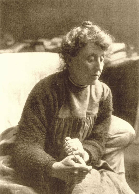 Photo of Evelyn De Morgan